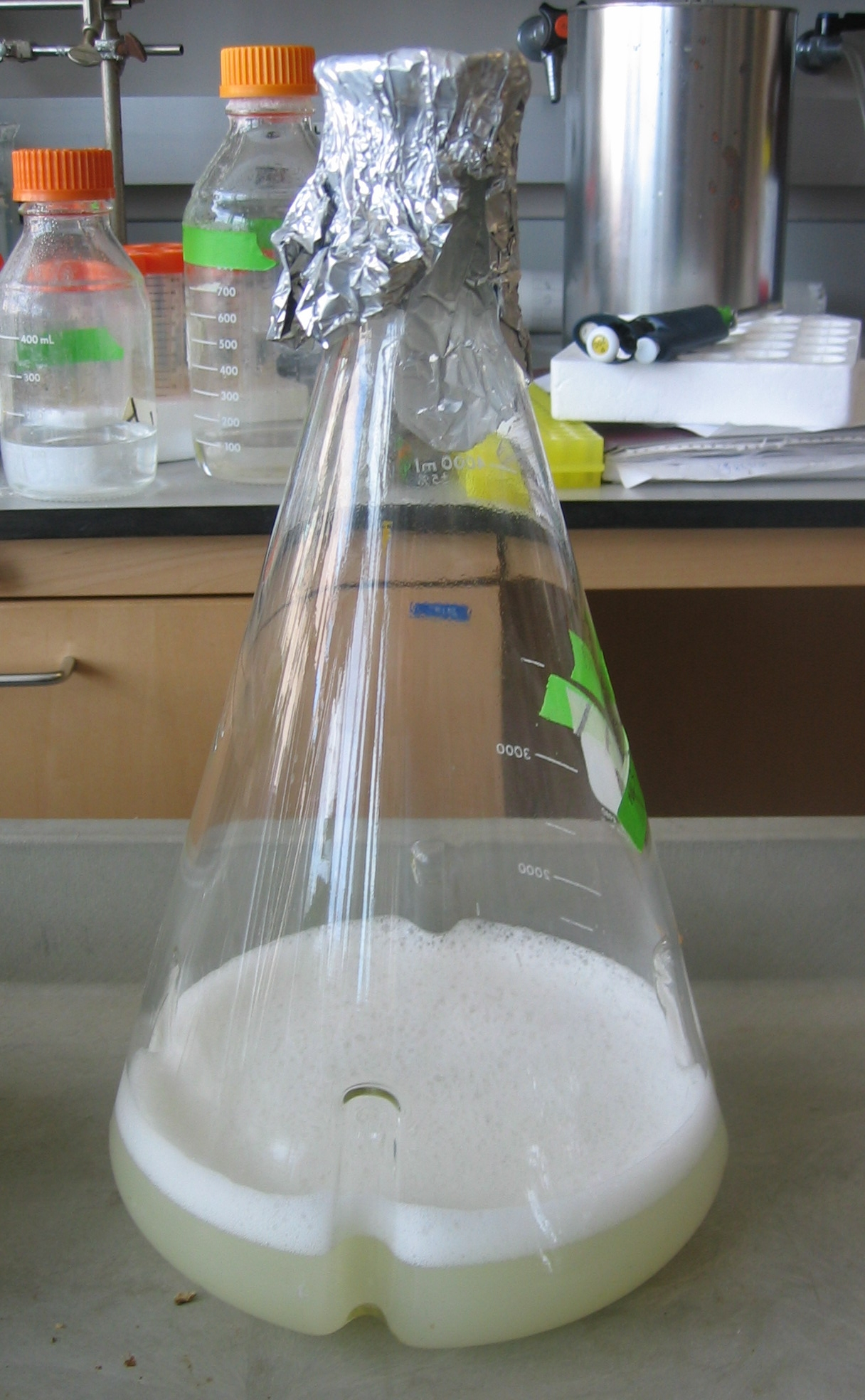 An erlenmeyer containing a bacterial culture.